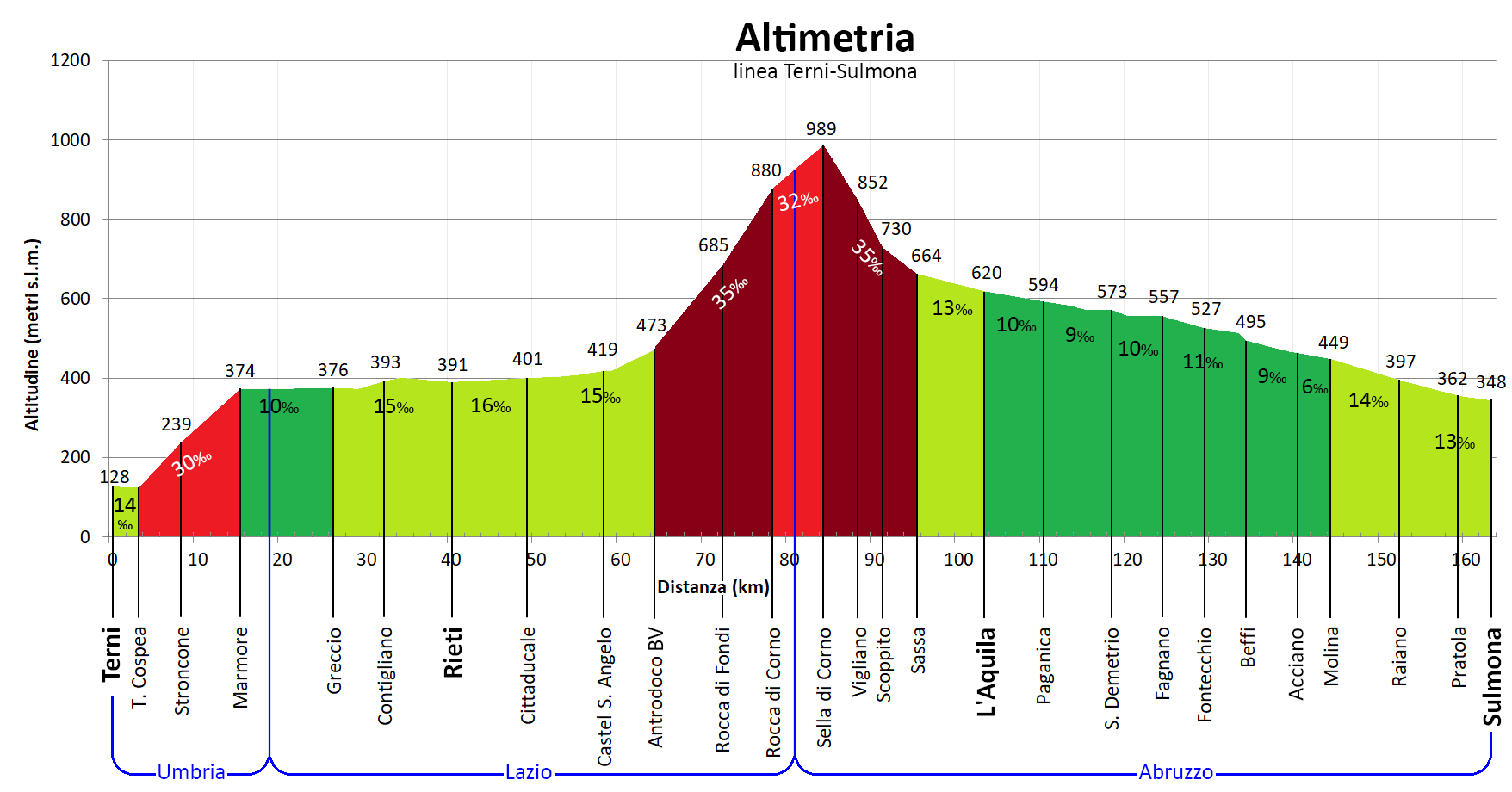 Altimetry of Terni-Rieti-L'Aquila-Sulmona railway, crossing the Apennines in central Italy, colored by maximum incline of each stretch: Incline 32‰